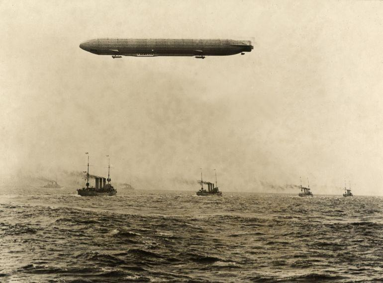 Nationaal Archief/Spaarnestad Photo